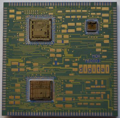 DEC Alpha prototype multi chip module